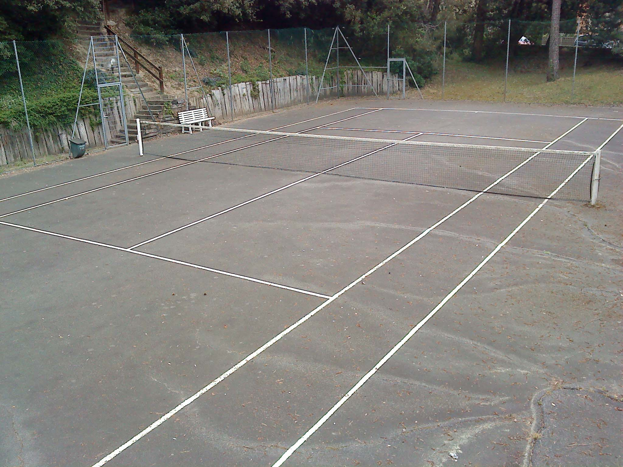 Tennis court asphalt